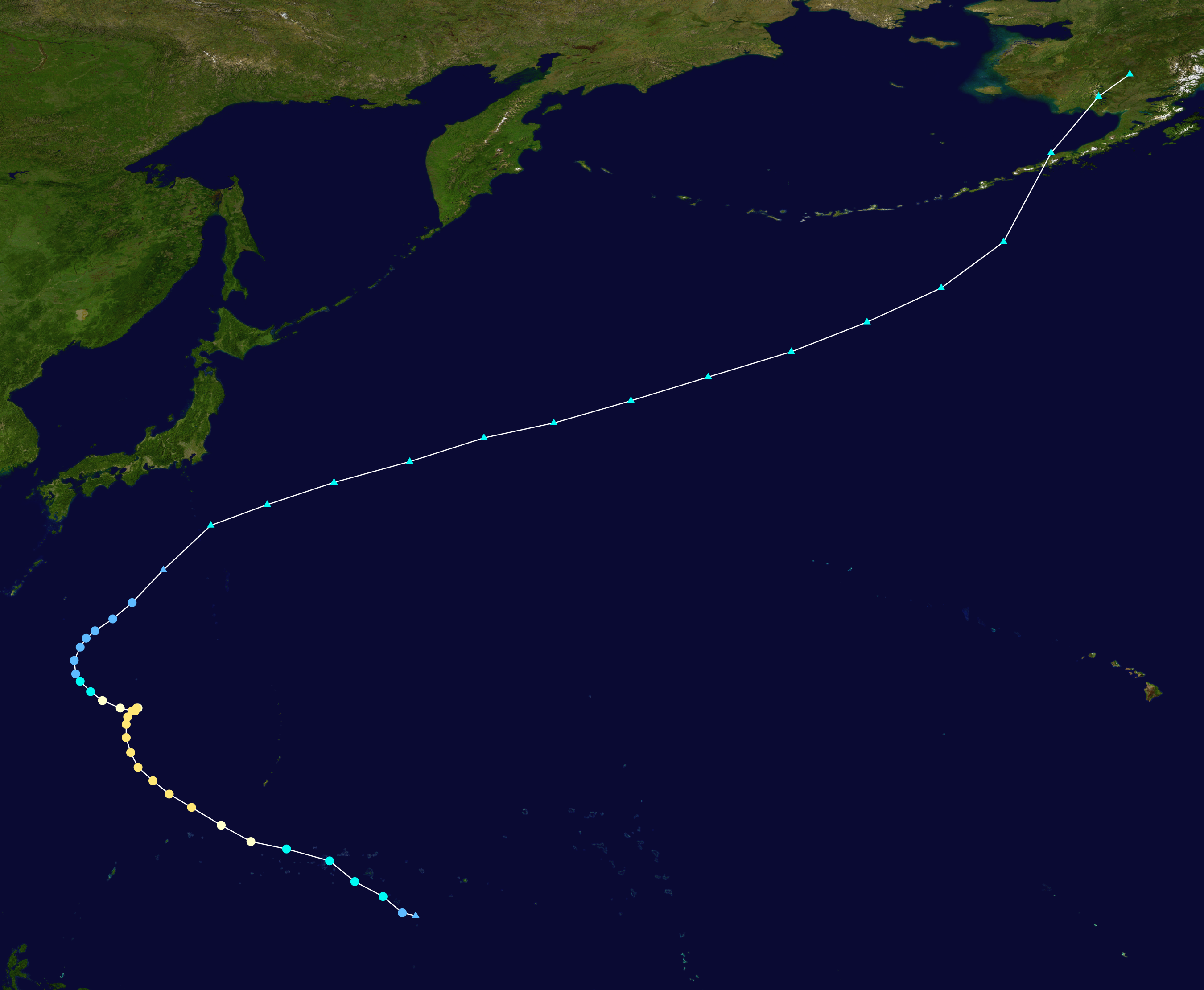 Track map of Typhoon Man-yi of the 2018 Pacific typhoon season. The points show the location of the storm at 6-hour intervals. The colour represents the storm's maximum sustained wind speeds as classified in the Saffir–Simpson scale (see below), and the shape of the data points represent the nature of the storm, according to the legend below. Saffir–Simpson scale Tropical depression≤38 mph≤62 km/h Category 3111–129 mph178–208 km/h Tropical storm39–73 mph63–118 km/h Category 4130–156 mph209–251 km/h Category 174–95 mph119–153 km/h Category 5≥157 mph≥252 km/h Category 296–110 mph154–177 km/h Unknown Storm type Tropical cyclone Subtropical cyclone Extratropical cyclone / Remnant low / Tropical disturbance / Monsoon depression